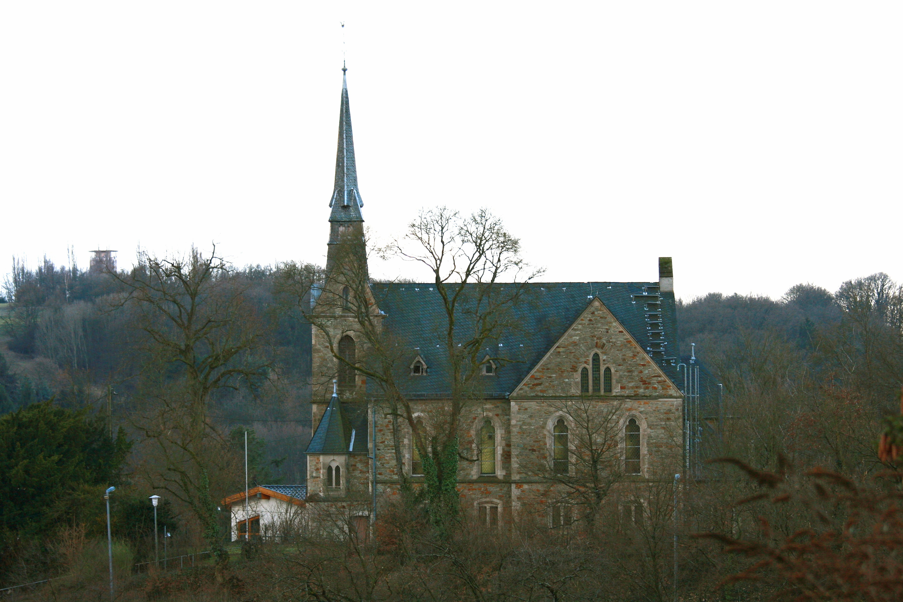 Protestant Church Wiesbaden-Rambach